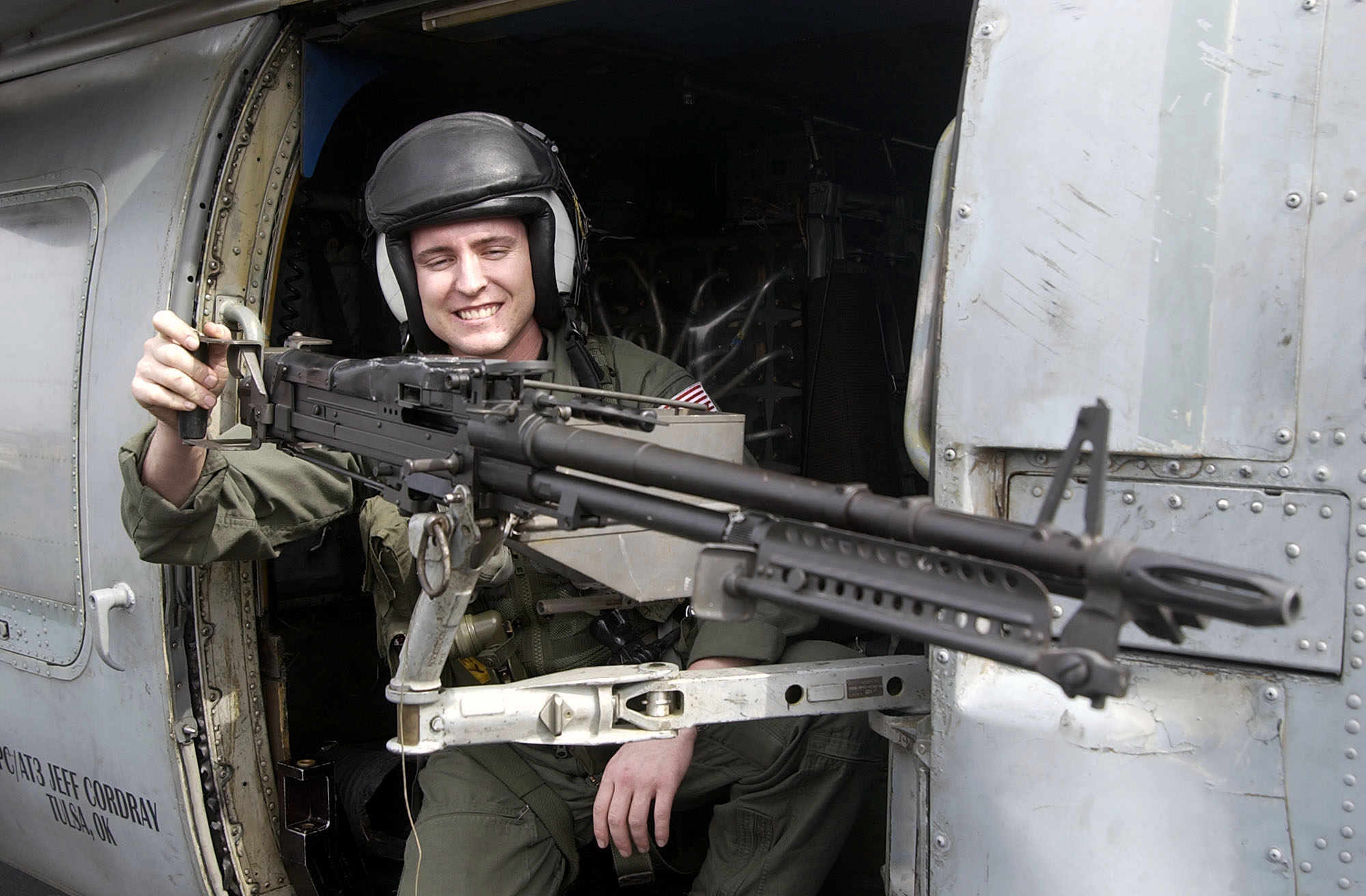 Arabian Gulf (Mar 9, 2003) - Aviation Warfare Systems Operator Jon Leney checks a M-60 machine gun during a pre-flight inspection on an SH-60 Seahawk helicopter. Petty Officer Leney is assigned to the “Saberhawks” of Light Helicopter Anti-Submarine Squadron Four Seven (HSL-47) aboard the aircraft carrier USS Constellation (CV 64). Constellation is deployed in support of Operations Southern Watch and Enduring Freedom. U.S. Navy photo by Photographer's Mate 2nd Class Felix Garza Jr. (RELEASED)